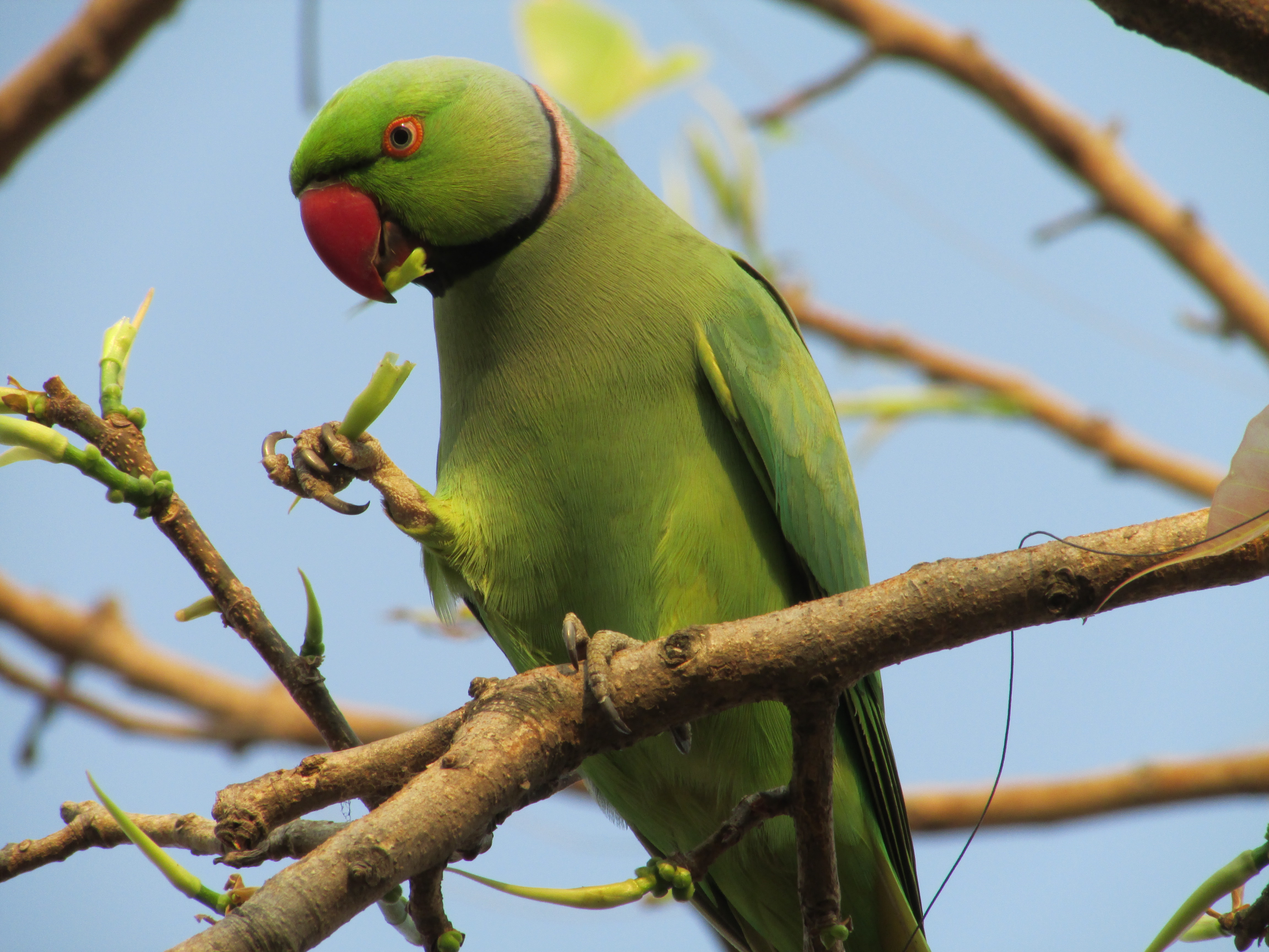 The rose-ringed parakeet is a member of the parrot family and is known so for the rose-coloured patch on its neck